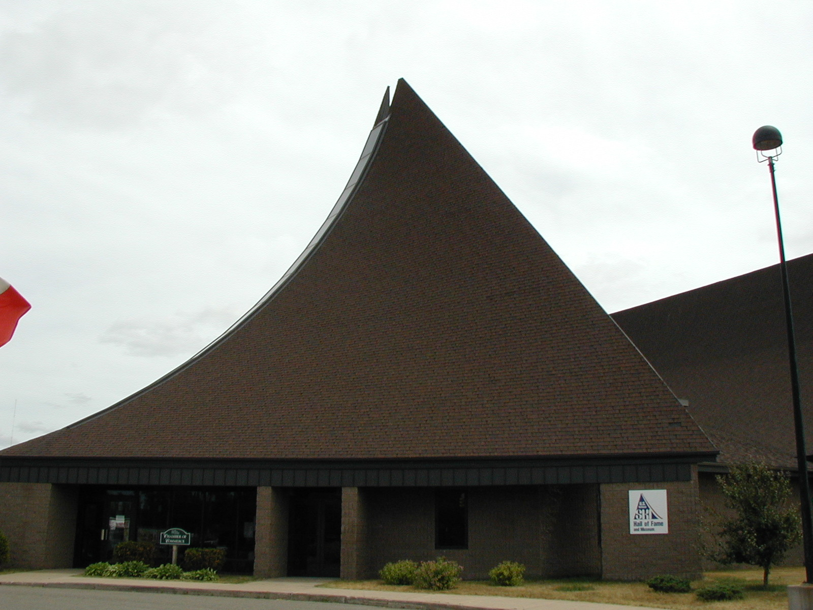 National Ski Hall of Fame located in Ishpeming, MI, side view in 2003